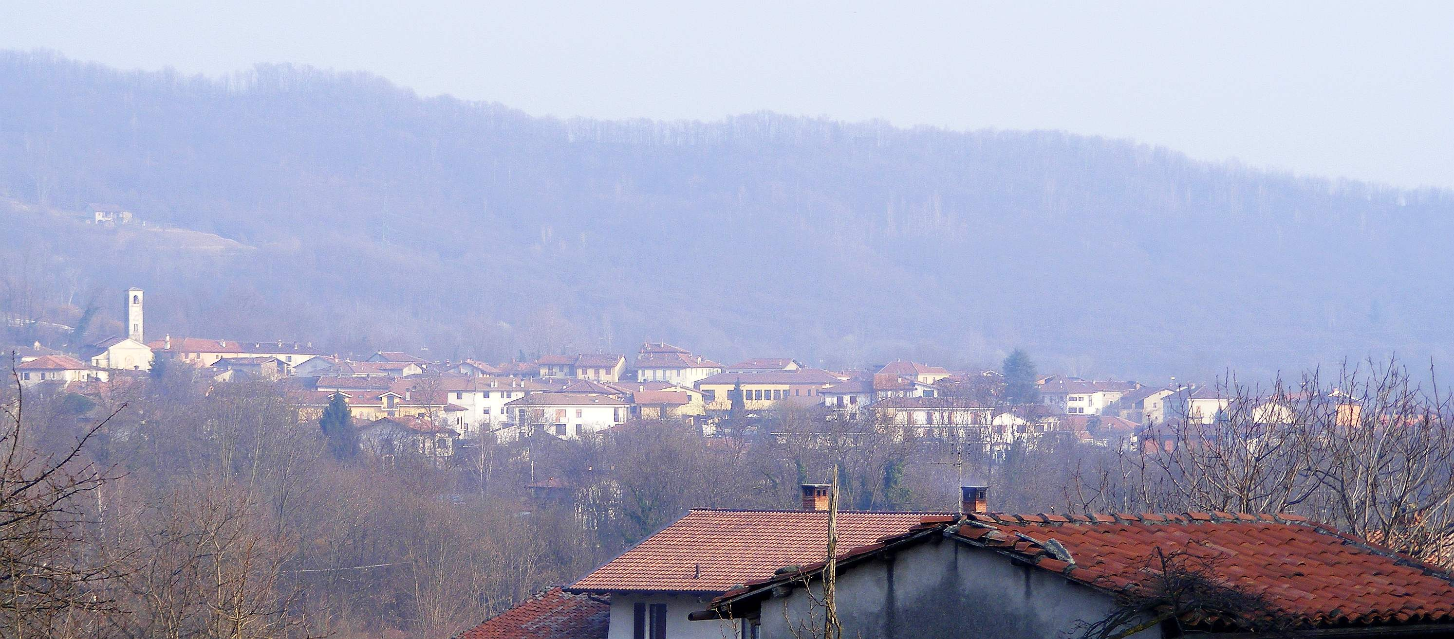 Vistrorio (TO, Italy): panorama from Issiglio